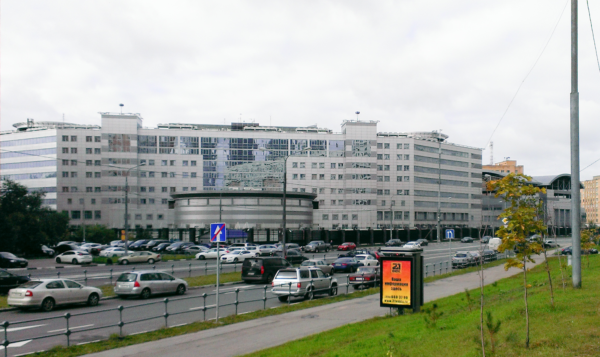 GRU headquaters on Grizodubovoy str. in Moscow